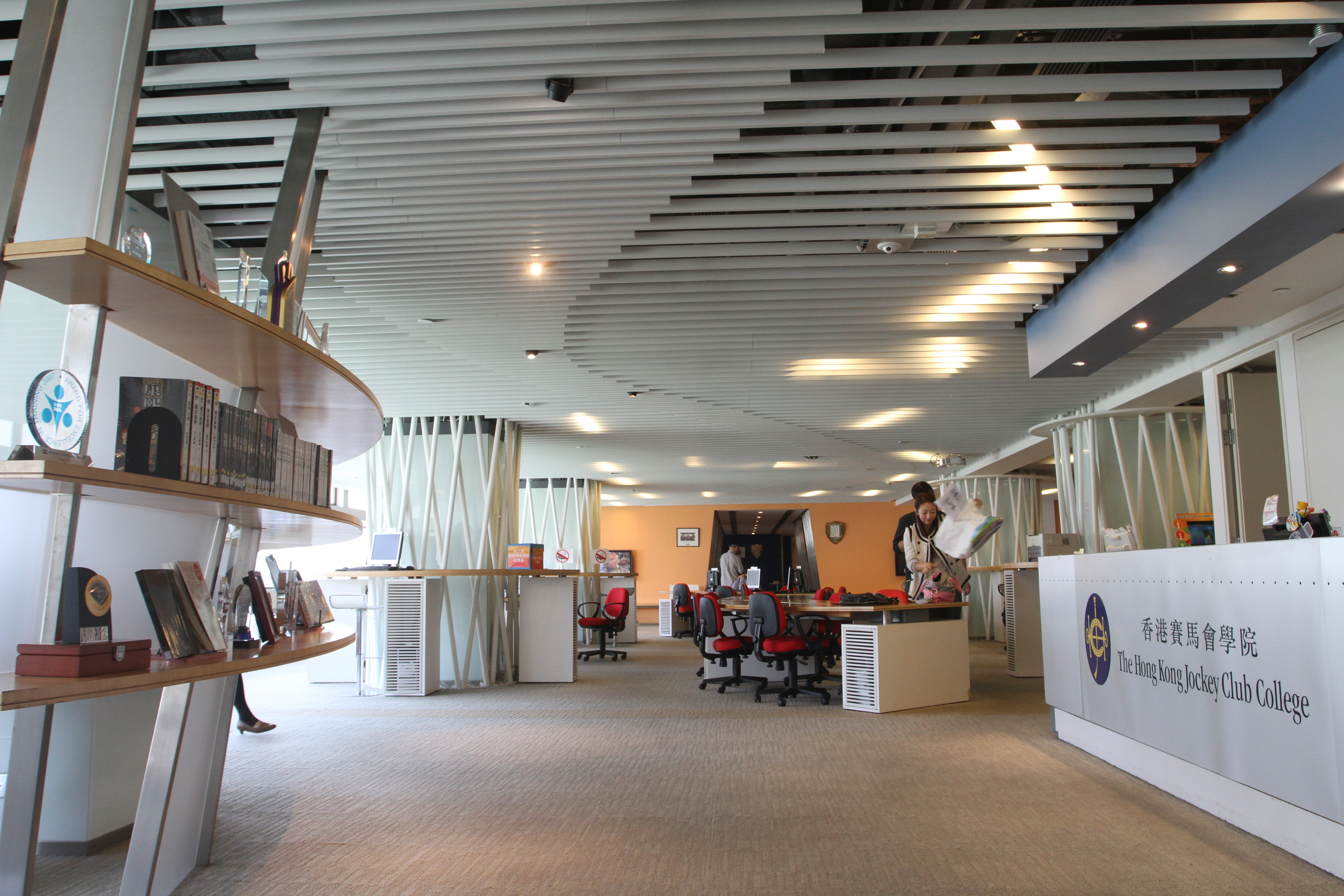 Campus of HKJCC located at Happy Valley Racecourse 粵語: 2012年成立嘅香港賽馬會學院